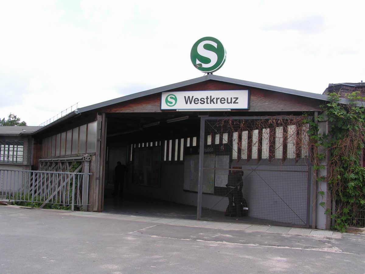 Entrance to the Berlin S-Bahn station "Westkreuz"